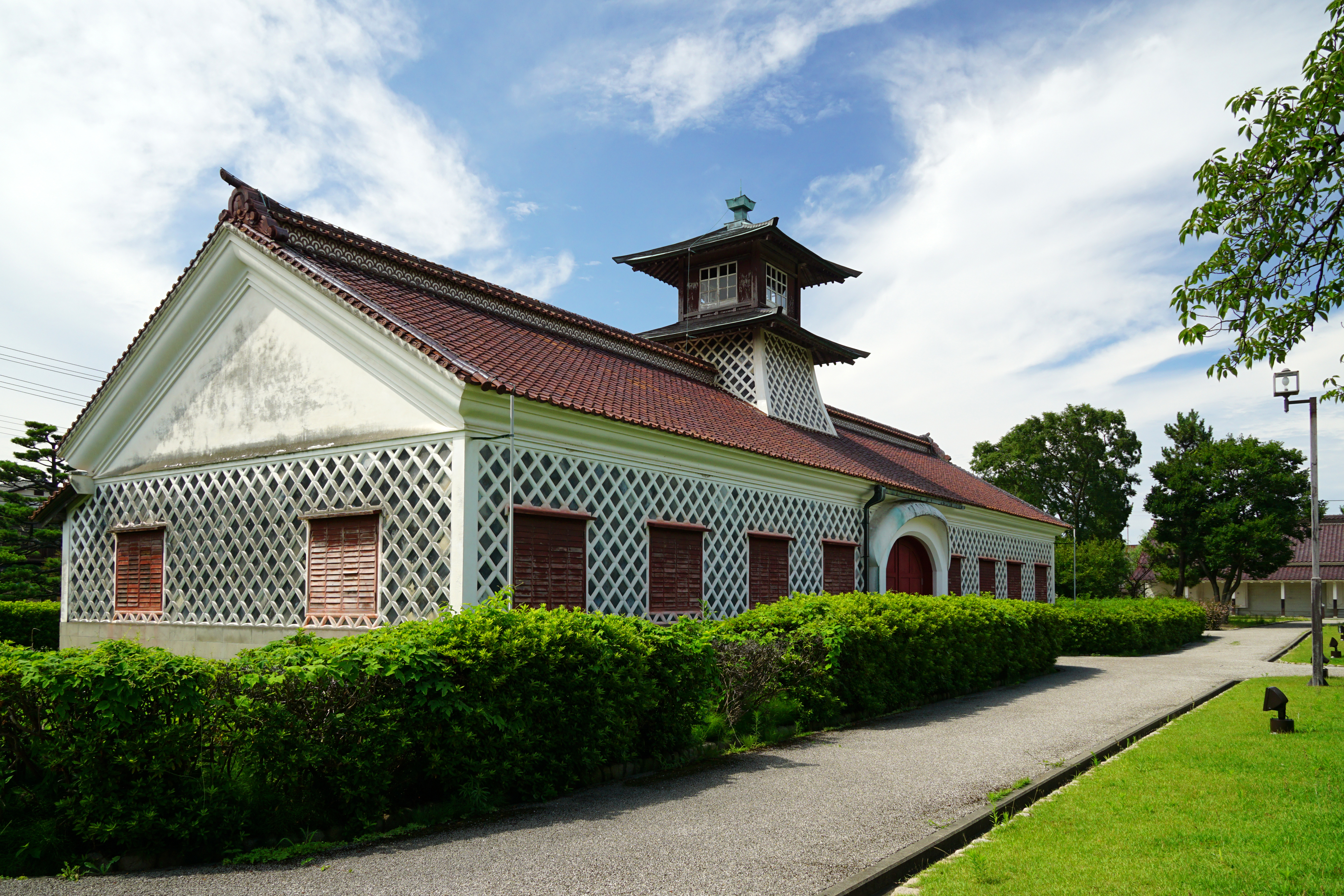 Old Niigata Customs Government Building in The Niigata City History Museum, Niigata, Niigata prefecture, Japan.